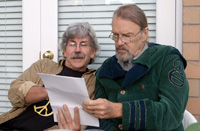 Photo of Rex Weyler and Bob Hunter, provided for use by Rex Weyler, copyright held by (and permission for use provided by) Myron MacDonald. Permission for use form submitted the OTRS. BlissfulGirl (talk) 17:55, 29 August 2008 (UTC)